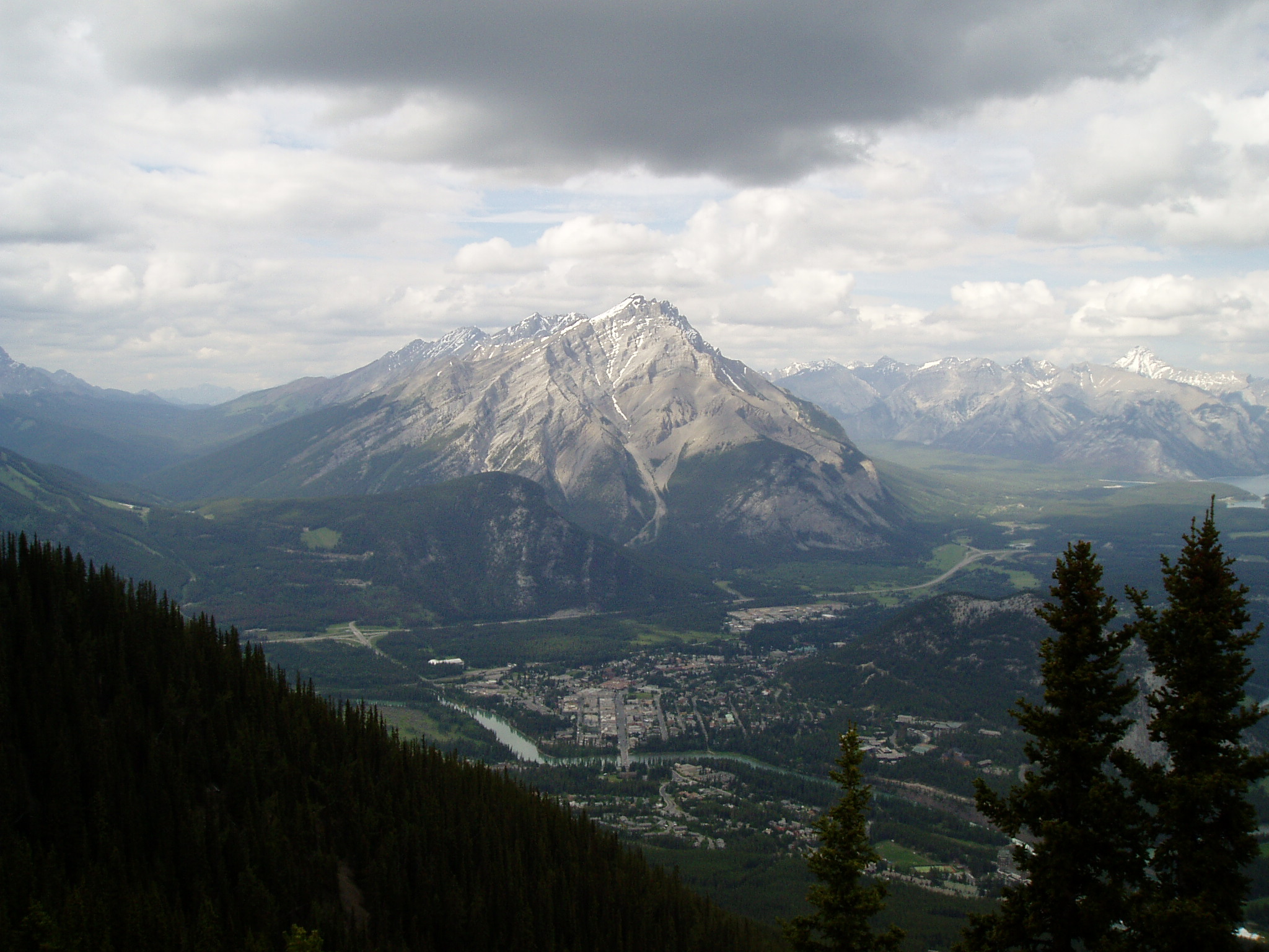 Banff townsite with nearby mountains, taken from Sulphur Mountain